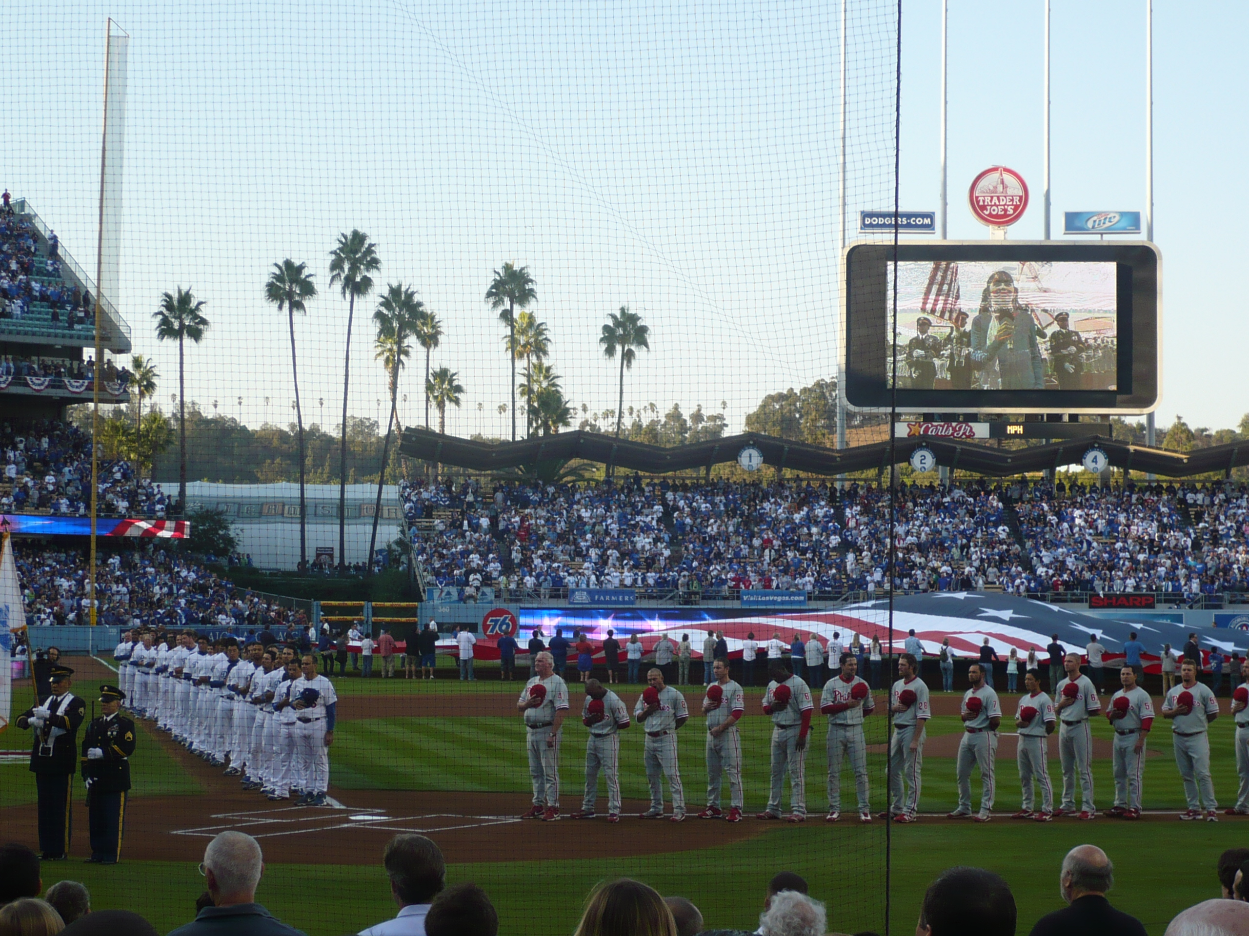 The Los Angeles Dodgers and Philadelphia Phillies stand with giant American flag in background during the National Anthem preceding Game 3 of the NLCS in 2008 at Dodger Stadium